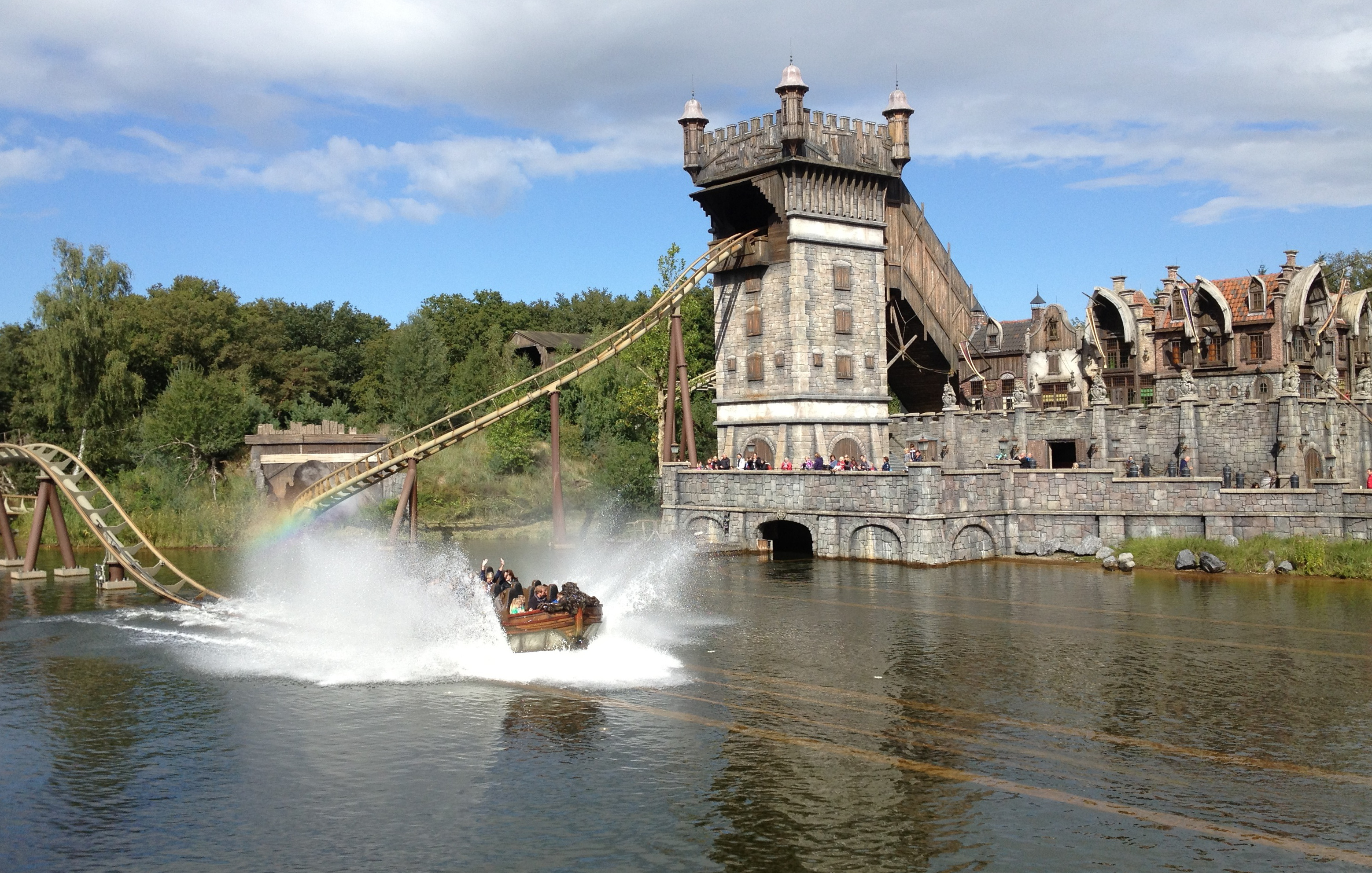 De Vliegende Hollander at Efteling, Netherlands नेपाली: De Vliegende Hollander